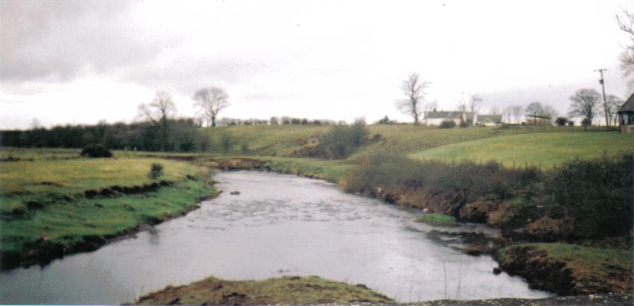 My own photograph taken for this article